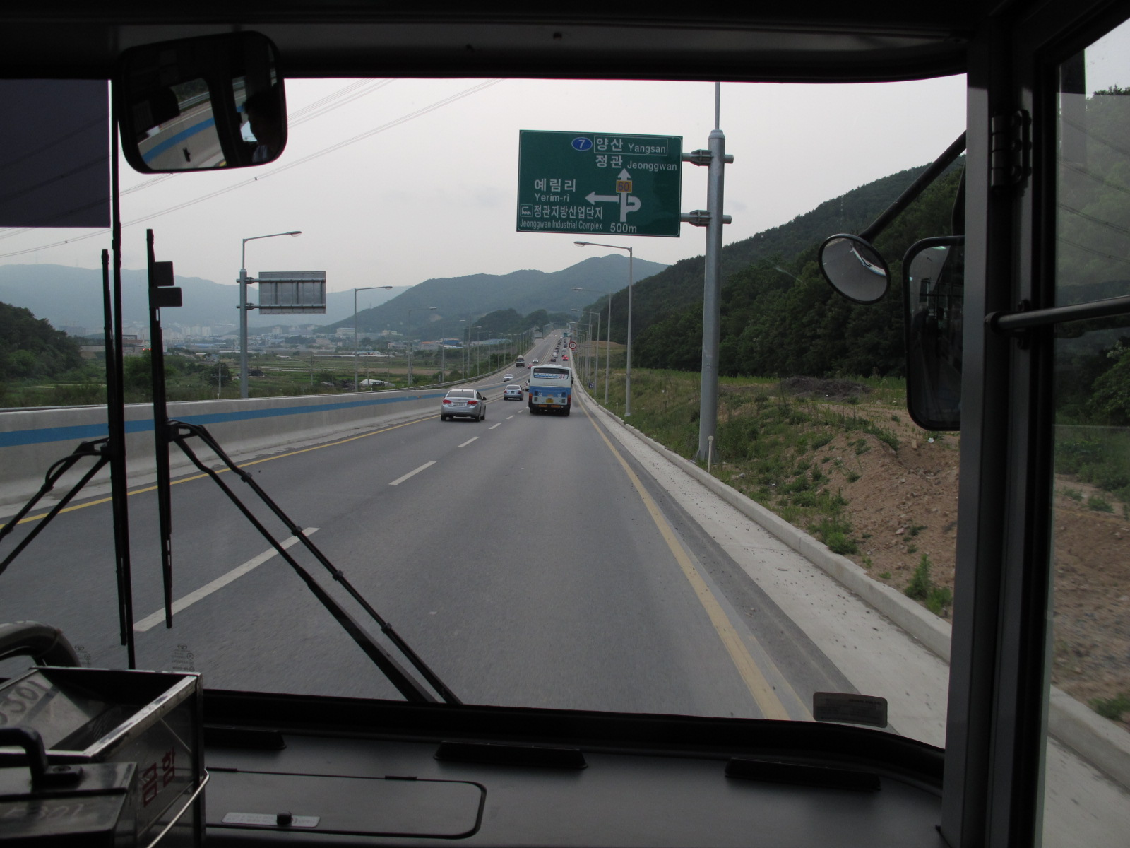 Yerim IC in Sinjeonggwan-ro Blvd., Busan, South Korea